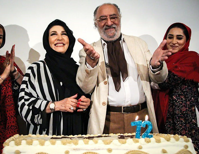 Dariush Arjmand and his wife at his 72nd birthday party.